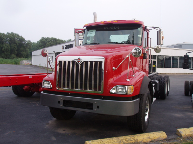 International Paystar 5900 SBA